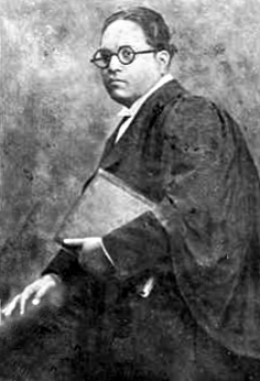 Dr. Ambedkar as Barrister after he was conferred the Honour.